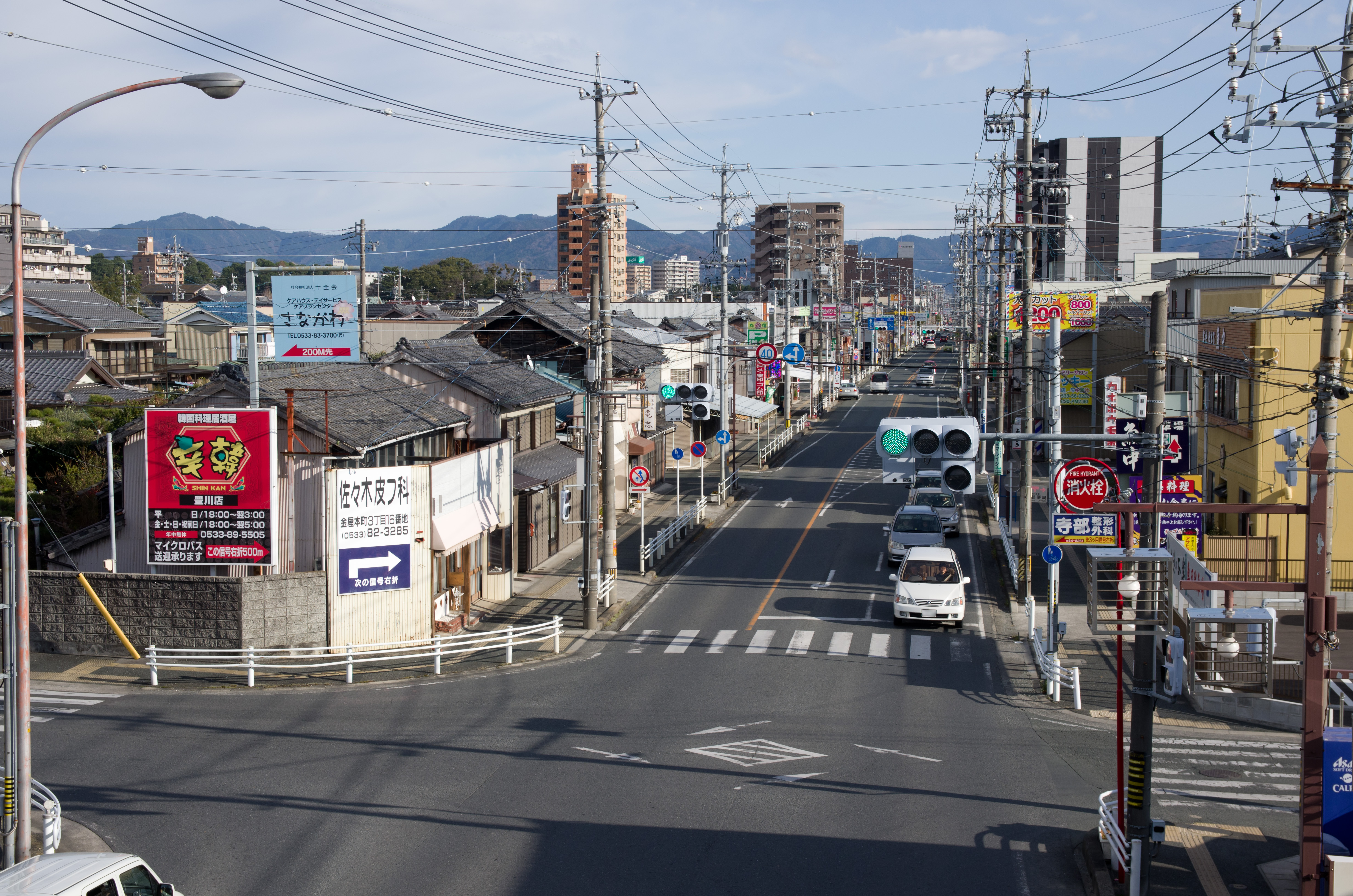 The Aichi Prefectural Road Route 5, taken on the Kanaya Bridge in Toyokawa, Aichi, Japan, facing to the east